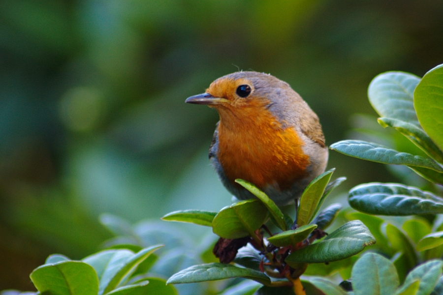 Foto eines Rotkehlchens, Erithacus rubecula